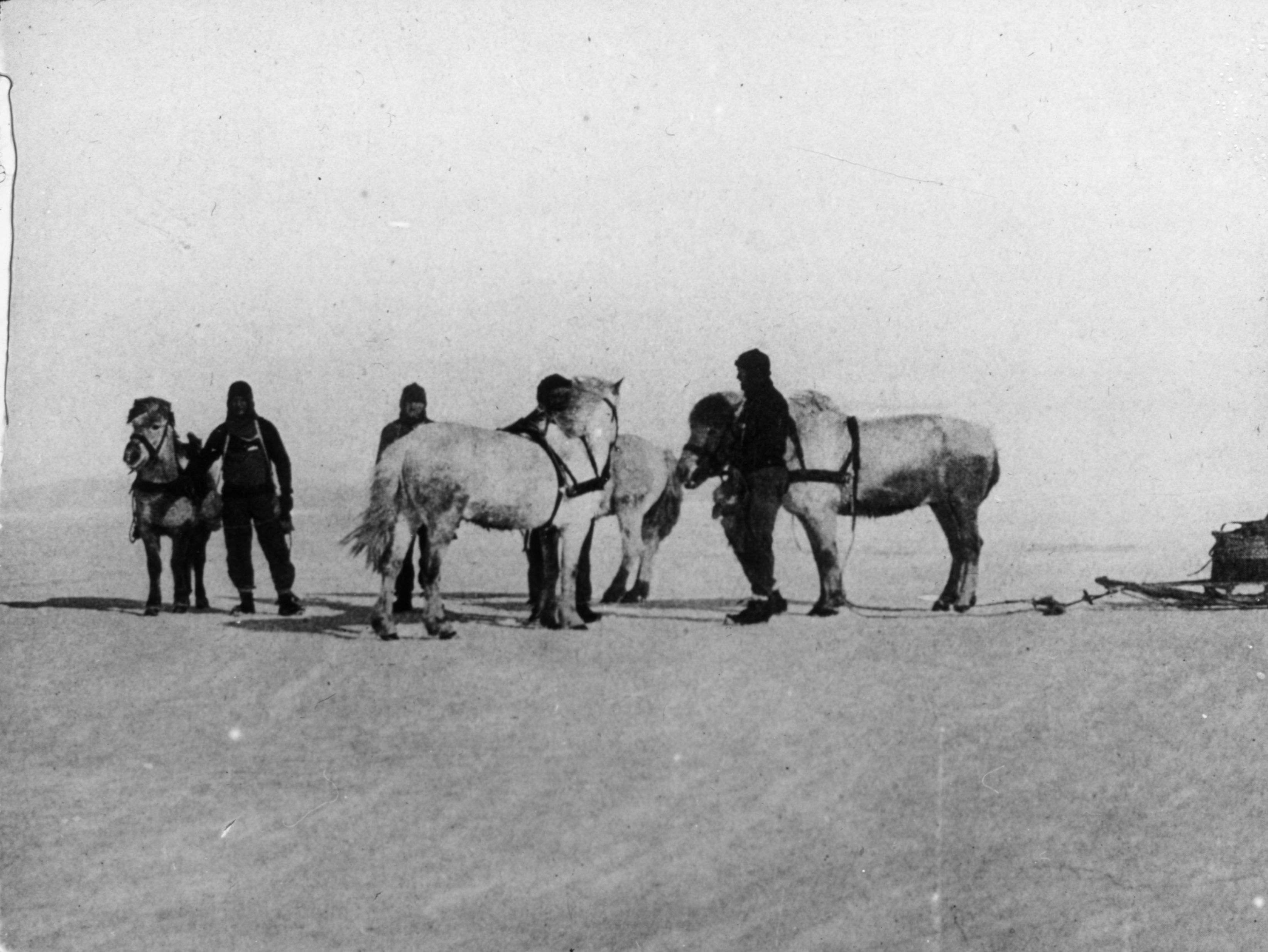 Photographs of the Nimrod Expedition (1907-09) to the Antarctic, led by Ernest Sheckleton